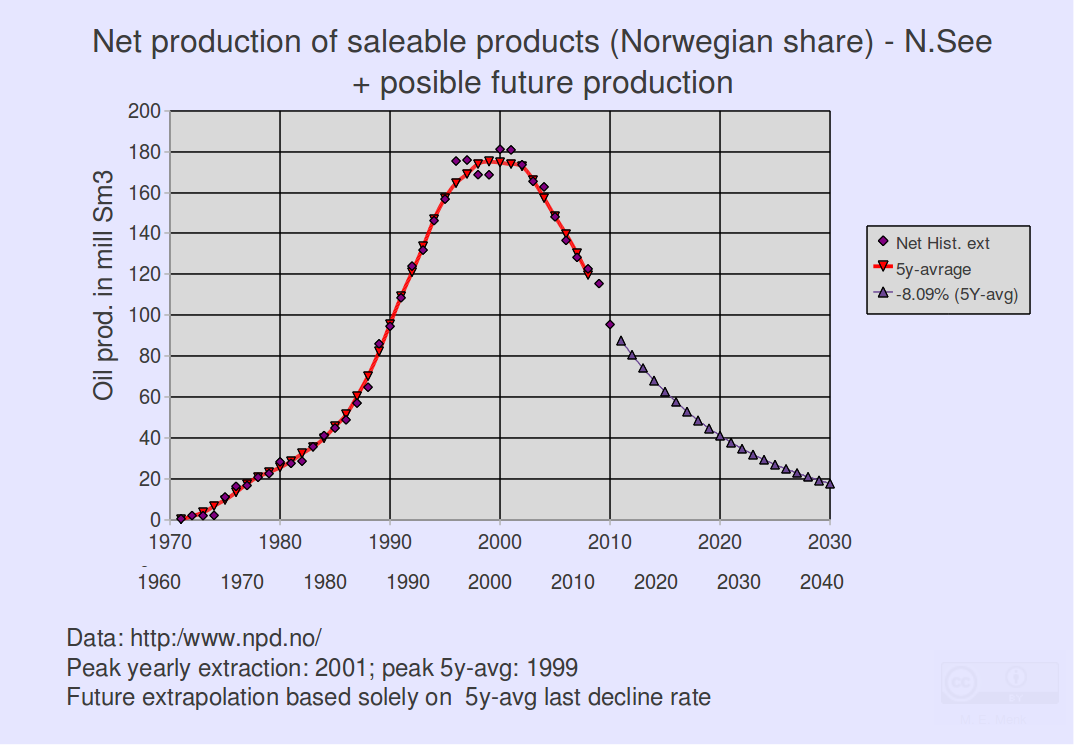 Net Salable Northsea oil, Norwegian share. The data is from A 5 year average is Matt Simmons recommendation in a talk, that you should look at the oil market in 5-year averages in order to even out economic and weather factor from the equation. The future extrapolation is solely based on the last 5y avrage % drop.